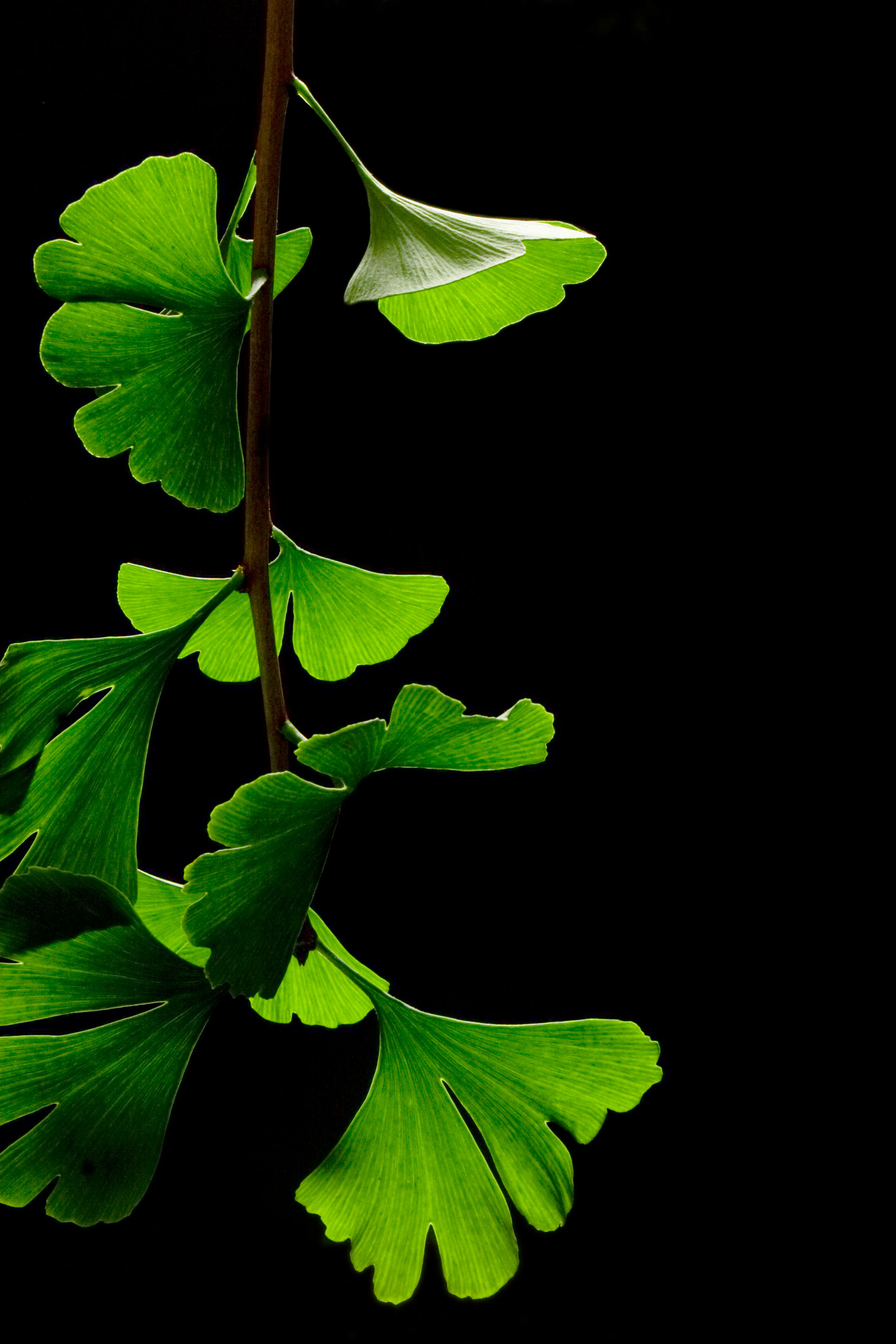 Ginkgo biloba leaves with black background